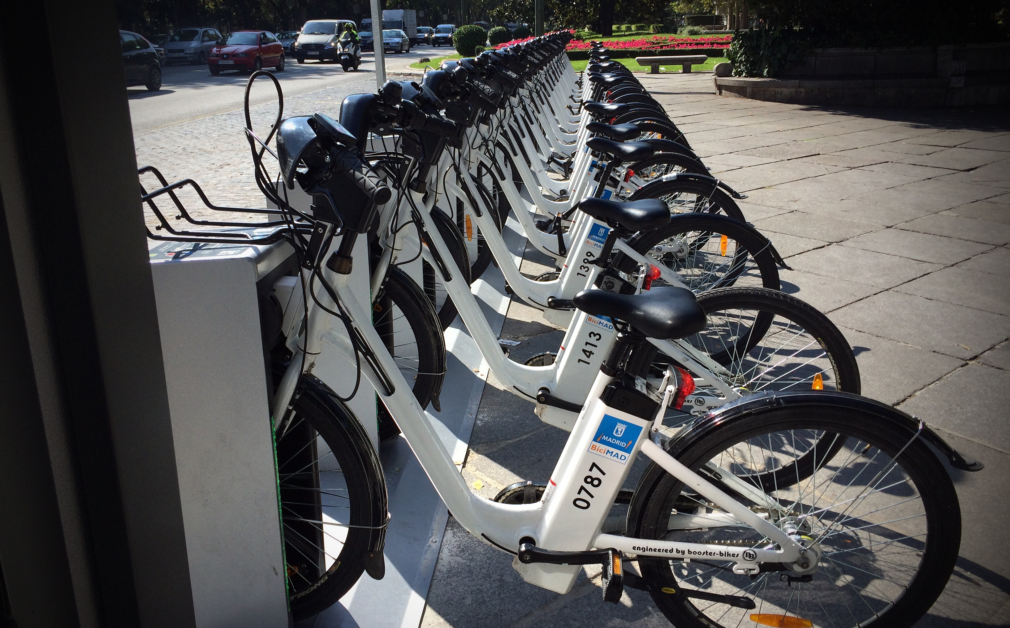 Bicicletas híbridas de alquiler en la Plaza de Cibeles, Madrid. Hybrid bycicles for renting in Plaza de Cibeles, Madrid. Más info / More info at: BiciMAD ___ Estas fotos tienen licencia (CC)-by y se pueden usar libremente. Simplemente menciona la autoría si las utilizas en algún sitio -- Foto Alvy / Microsiervos This photos are licensed (CC)-by and can be used freely. Just mention the author if you are going to use them anywhere -- Photo: Alvy / Microsiervos